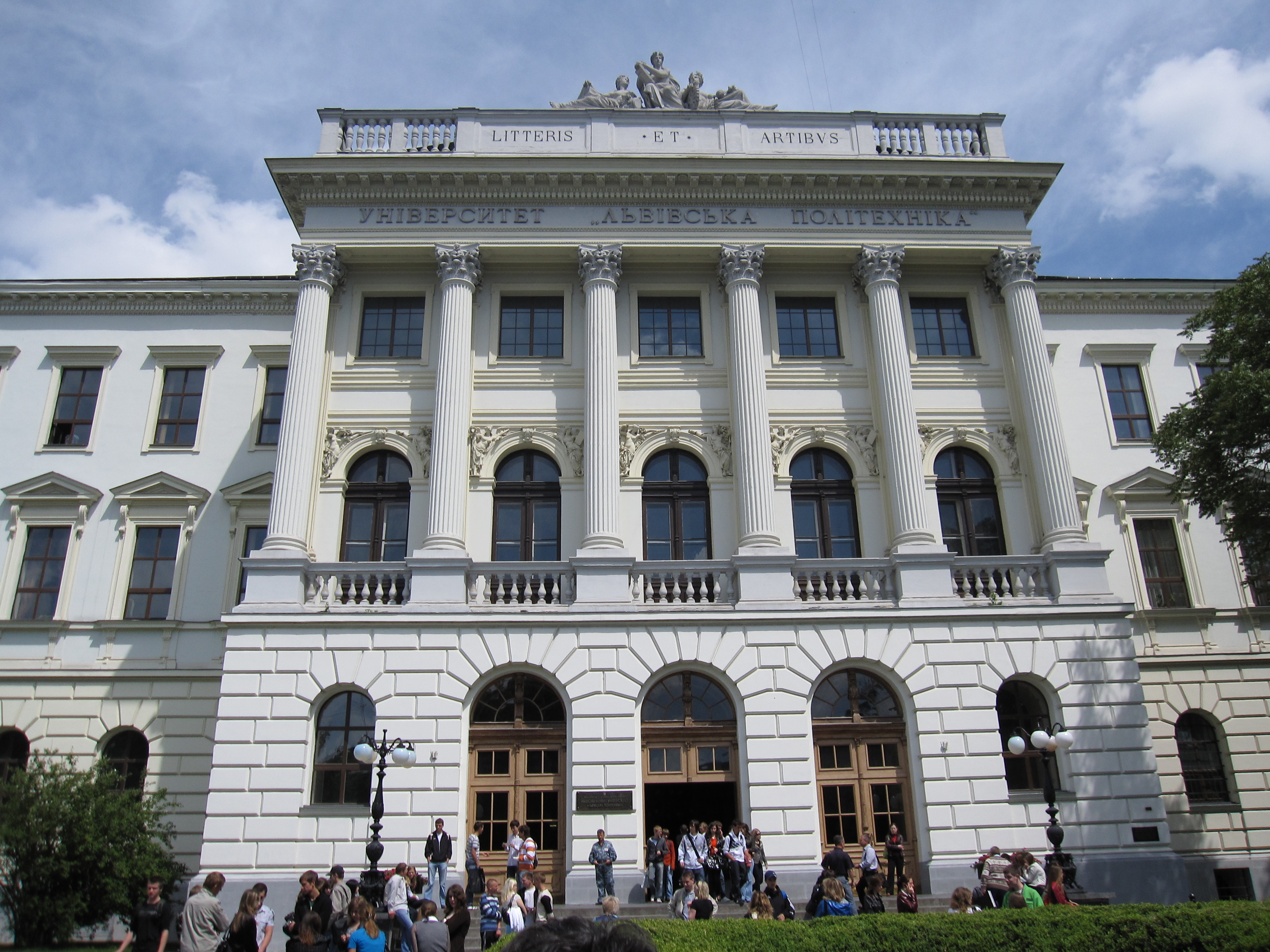 Exterior of Lviv Polytechnic.